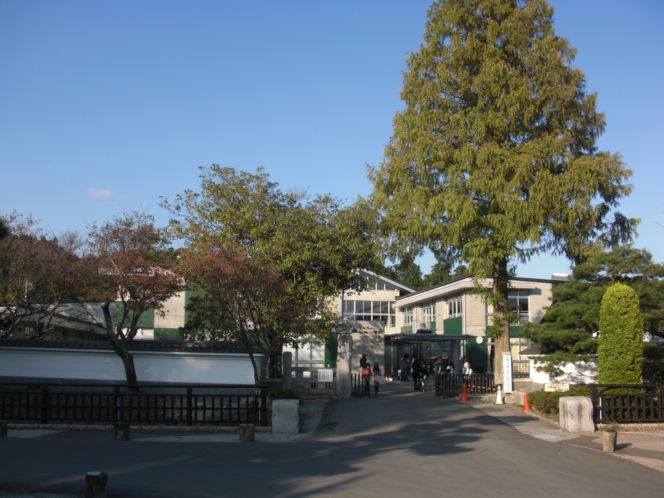 This is an elementary school in Takahagi city, Ibaraki prefecture, Japan. This school is in the site of Matsuoka castle San-no-Maru.